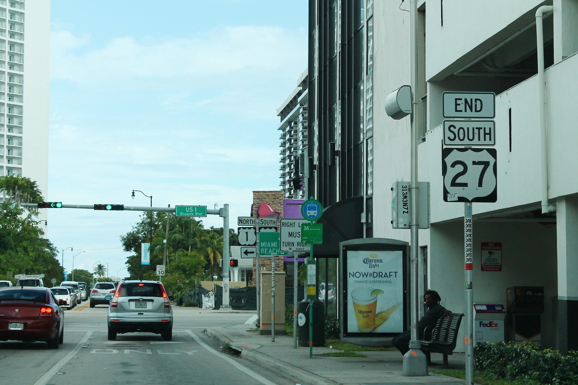 US Route 27's southern terminus at US 1 in Miami, Florida. This is also the endpoint of hidden Florida State Road 25, which follows US 27 for much of its length.